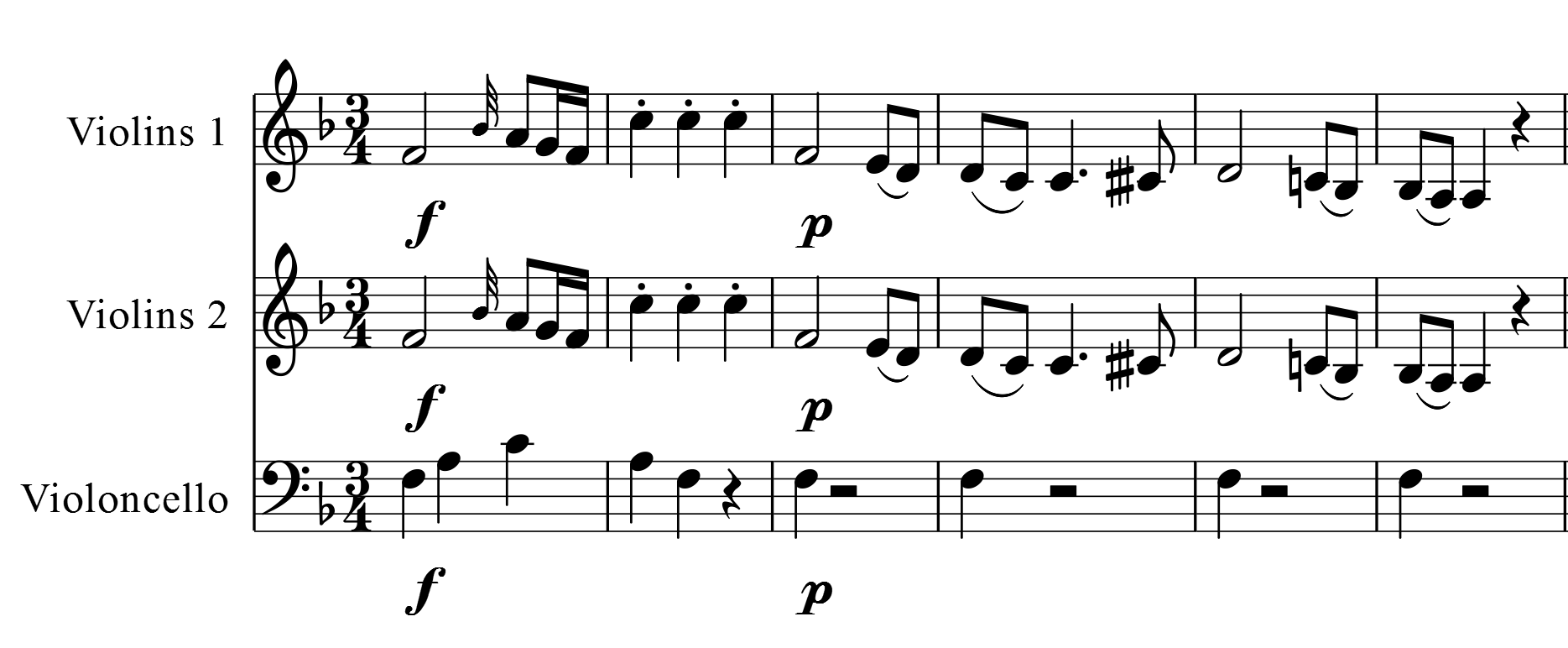 Symphony by unknown composer (formerly thought to have been written by W. A. Mozart, K.98),third movement, bar 1-6